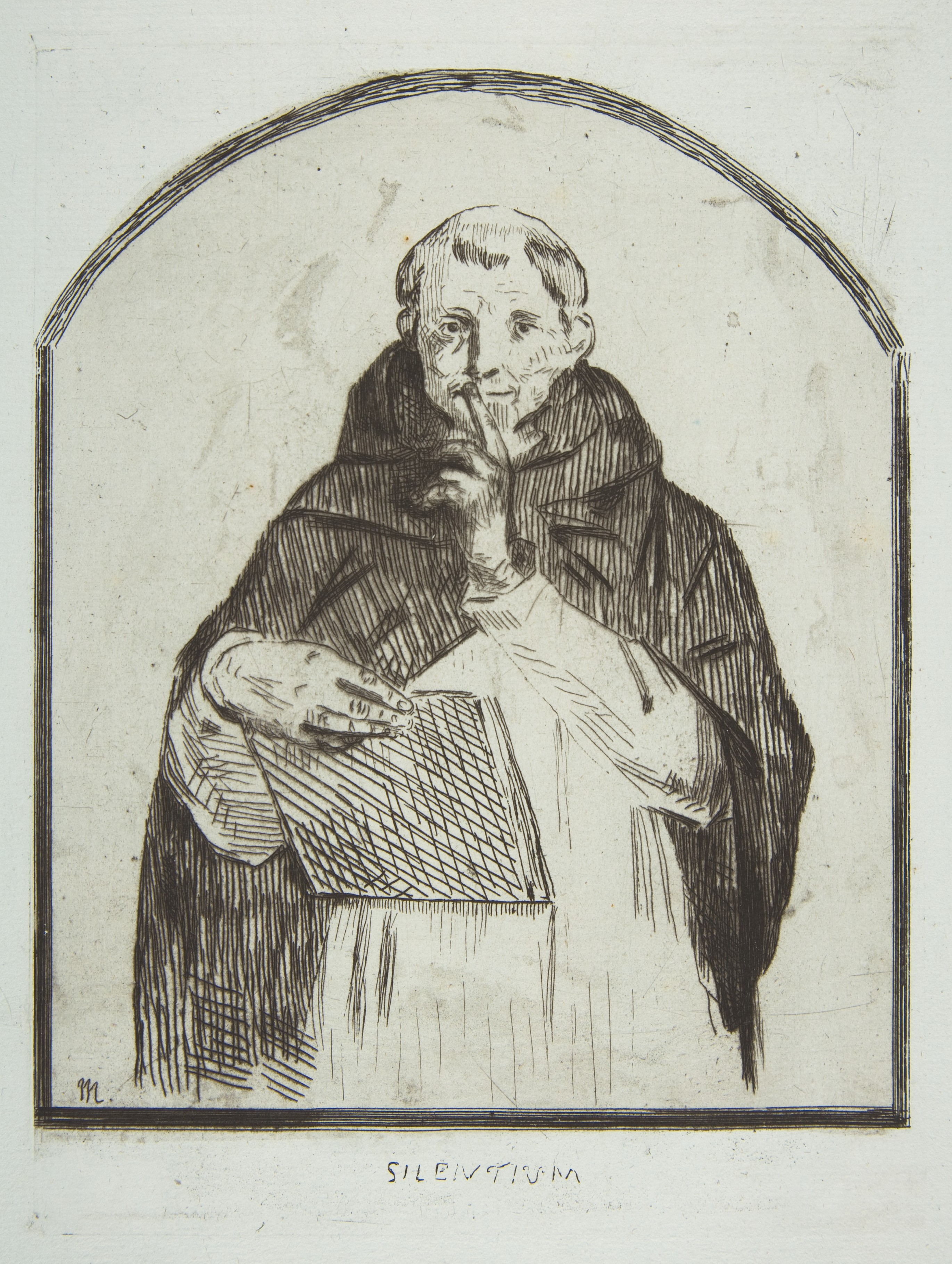 Print; Prints